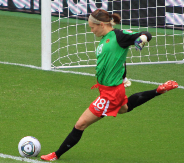 Erin McLeod playing for Canada in the 2011 FIFA Women's World Cup